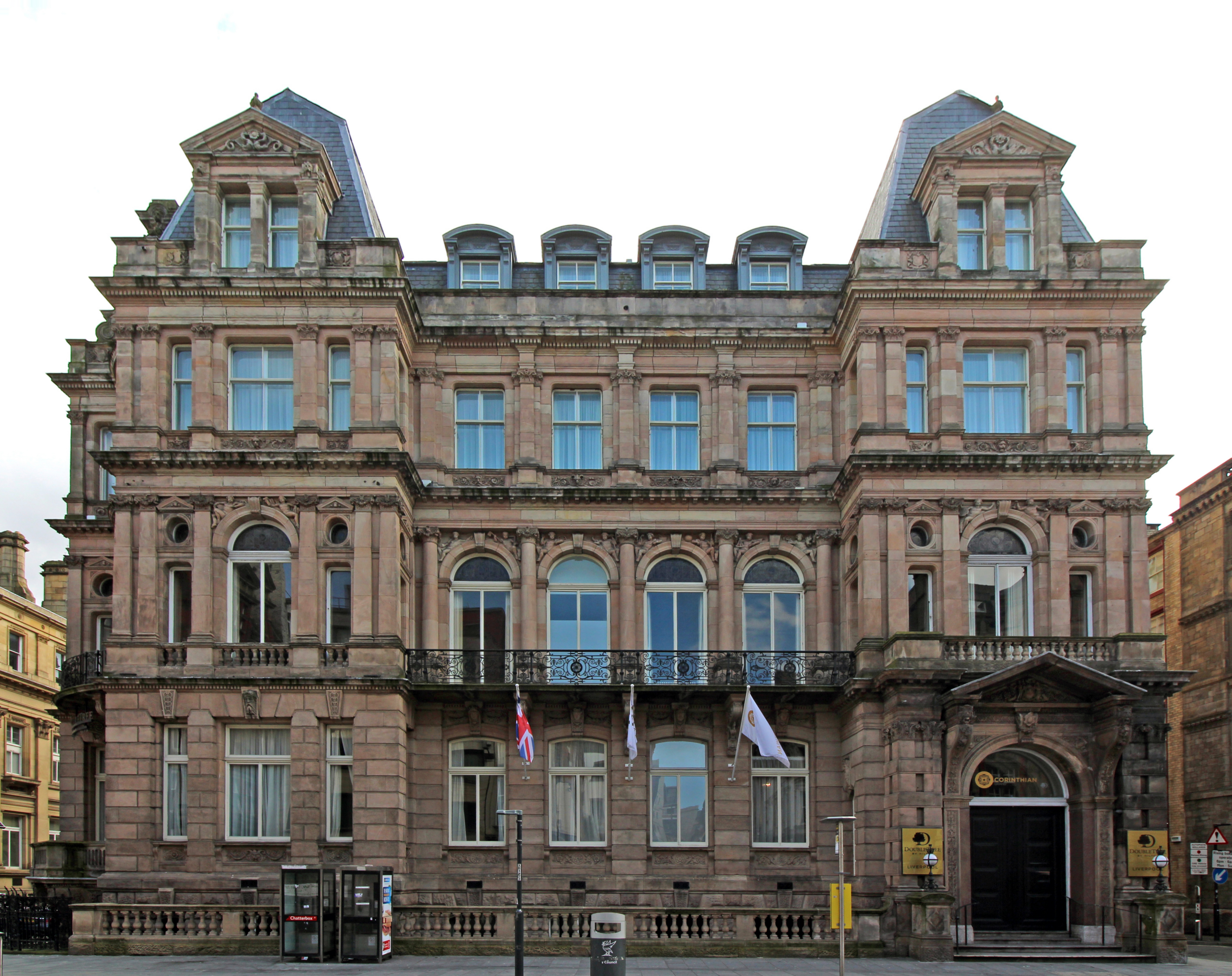 Front elevation on Dale Street; Grade II listed, built 1883 as a conservative club, then taken over as office space by Liverpool City Council. Now part of the DoubleTree Hotel.